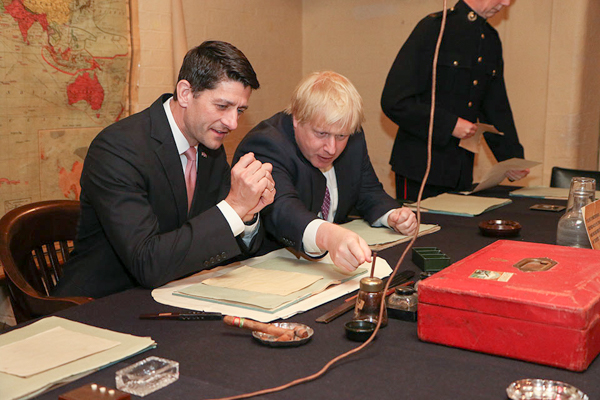 UK Foreign Secretary Boris Johnson shows Speaker Ryan the Churchill war rooms from WWII.